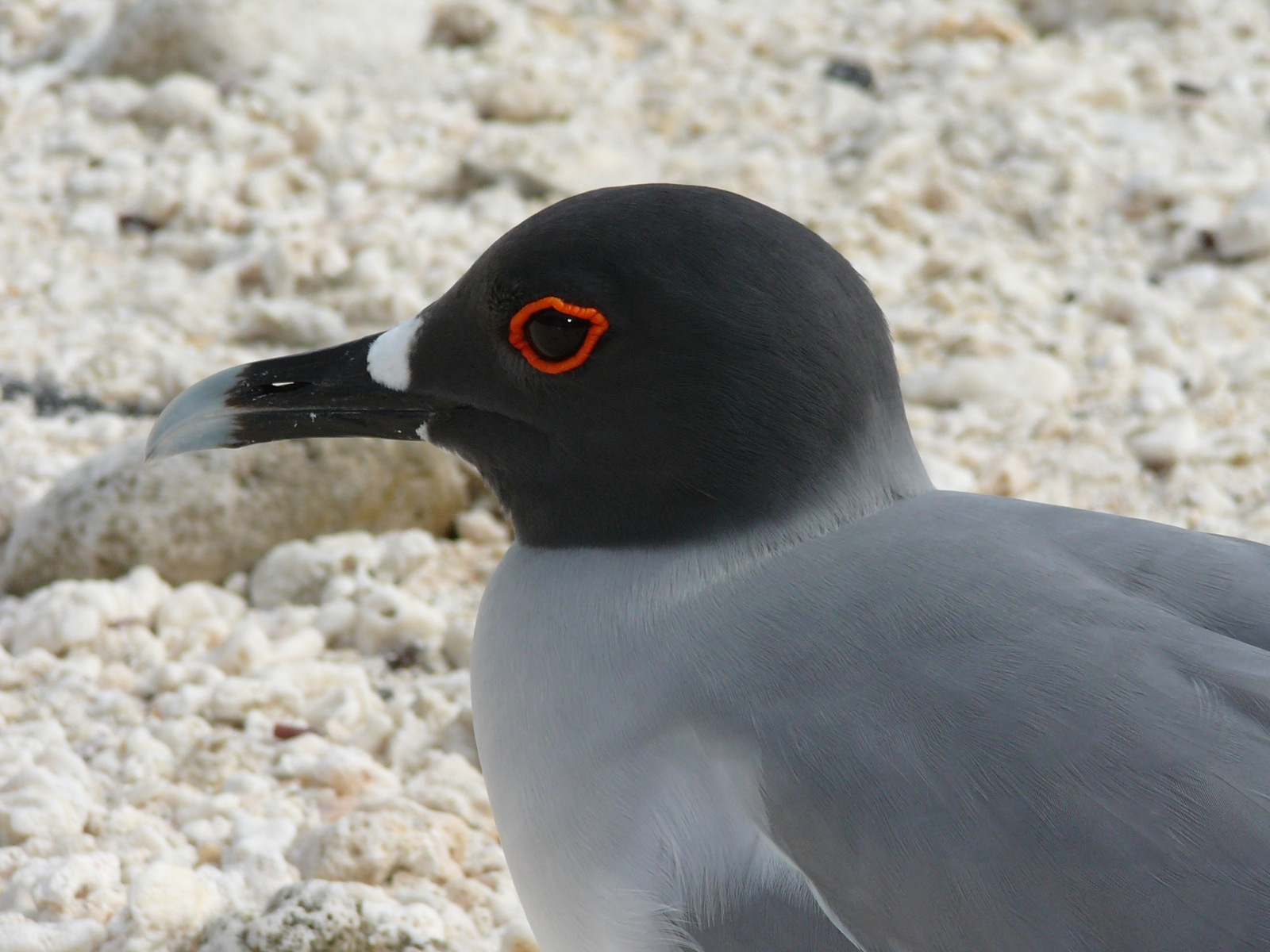 Swallow-tailed Gull (Creagrus furcatus) on the Galapogos Islands, where its biggest breeding colonies are. The photo shows side of upper body, neck and head. The red ring around its eye and its plumage indicates that it is in breeding condition.